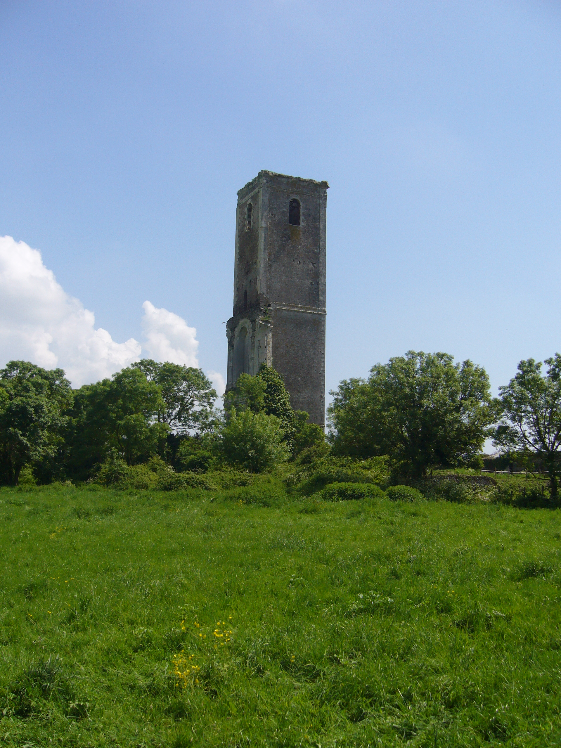 Ruins of the tower at the Abbey of Buzay, Loire-Atlantique, France.